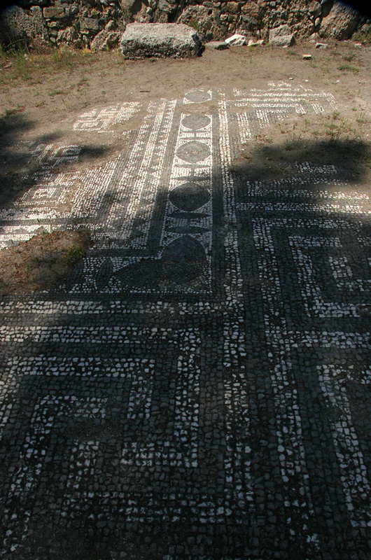 Remains of a floor mosaic in Phaselis